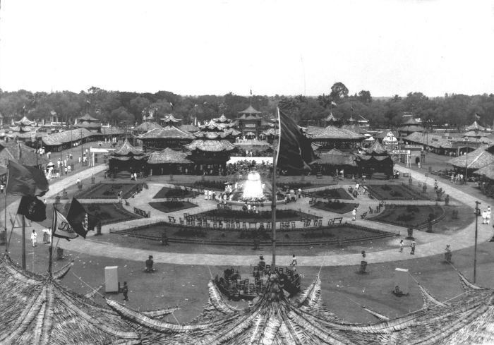 View over the Pasar Gambir at King's Square, Batavia